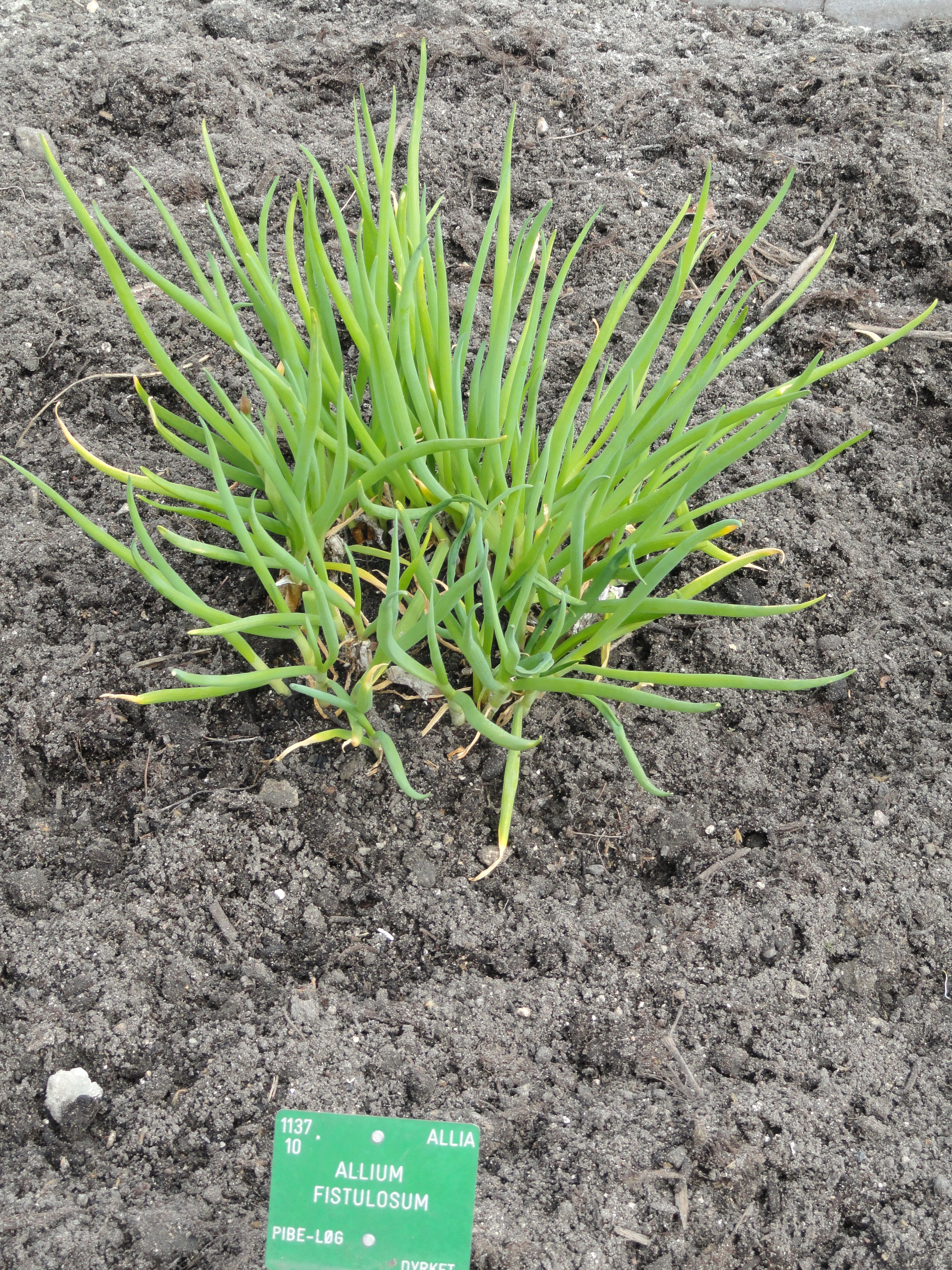 Botanical specimen in the University of Copenhagen Botanical Garden, Copenhagen, Denmark.